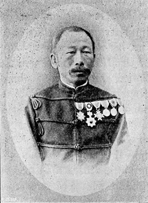 Major Mihara